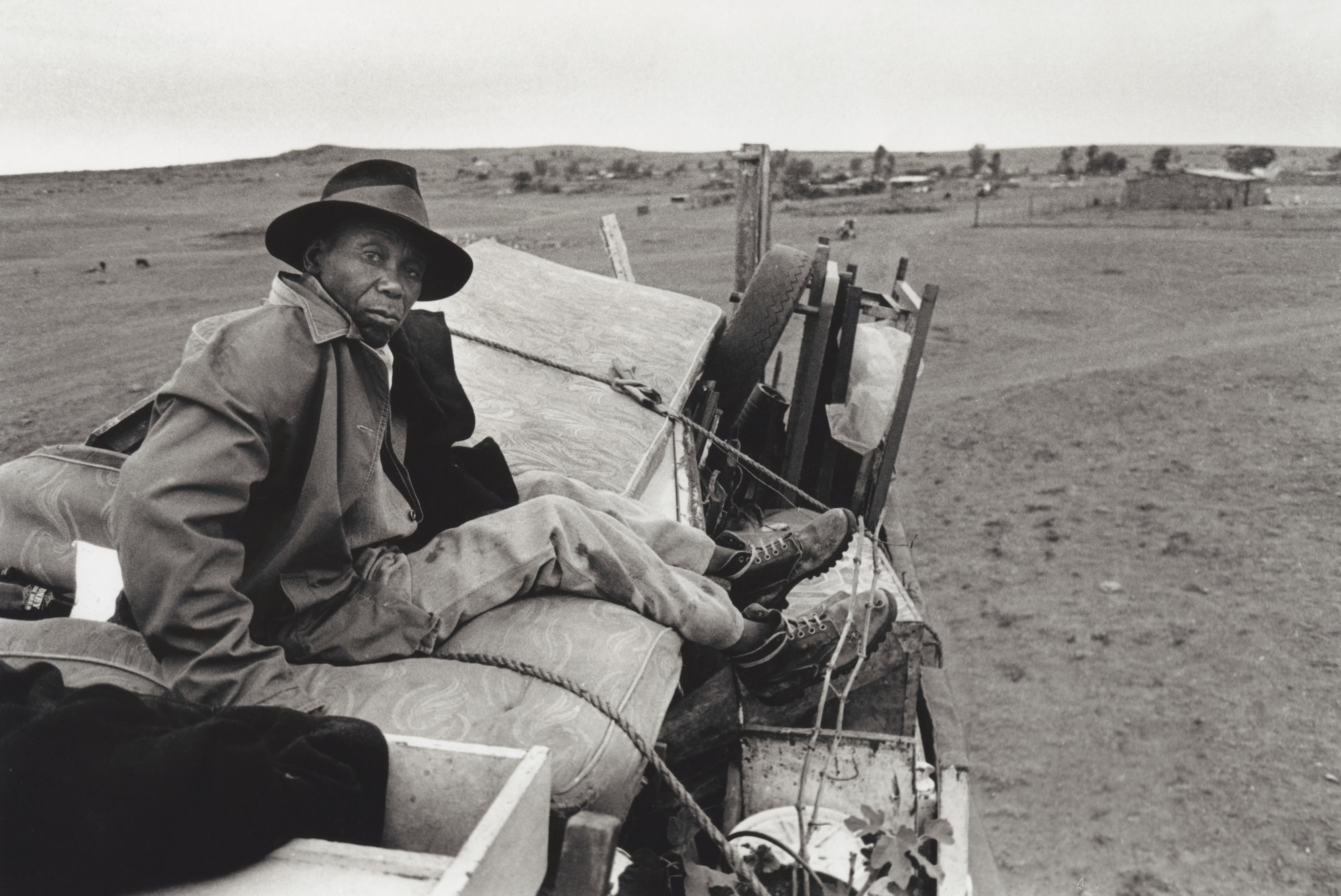 Forced removal under apartheid, Mogopa, Western Transvaal, February 1984. Part of the collection that makes up the photographic book Travelling Light. The book and its images records the photographers beginnings in the streets of Johannesburg in the late 1970s and carries us through to the more contemporary landscapes of rural South Africa.